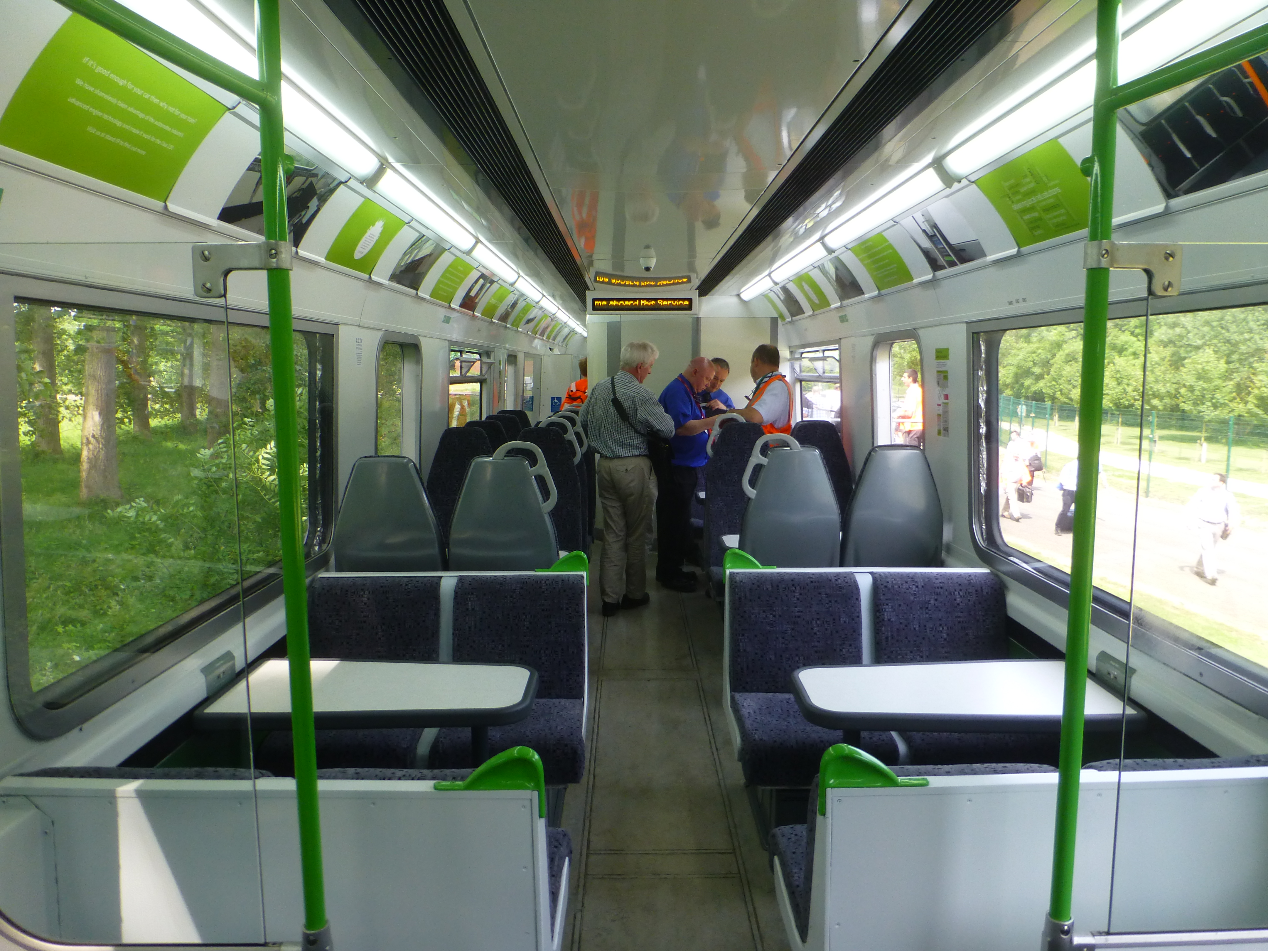 Inside the Class 230 Vivarail D-Train trailer coach which demonstrates some of the possible seating options and also includes a fully accessible toilet.